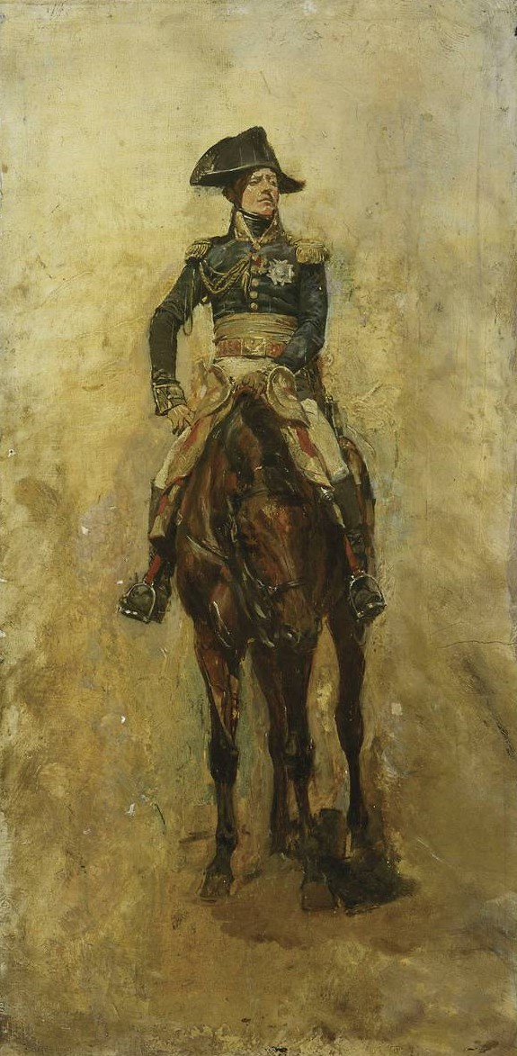 LE MARECHAL BESSIERES A CHEVAL. Marshal Jean-Baptiste Bessières on horseback.